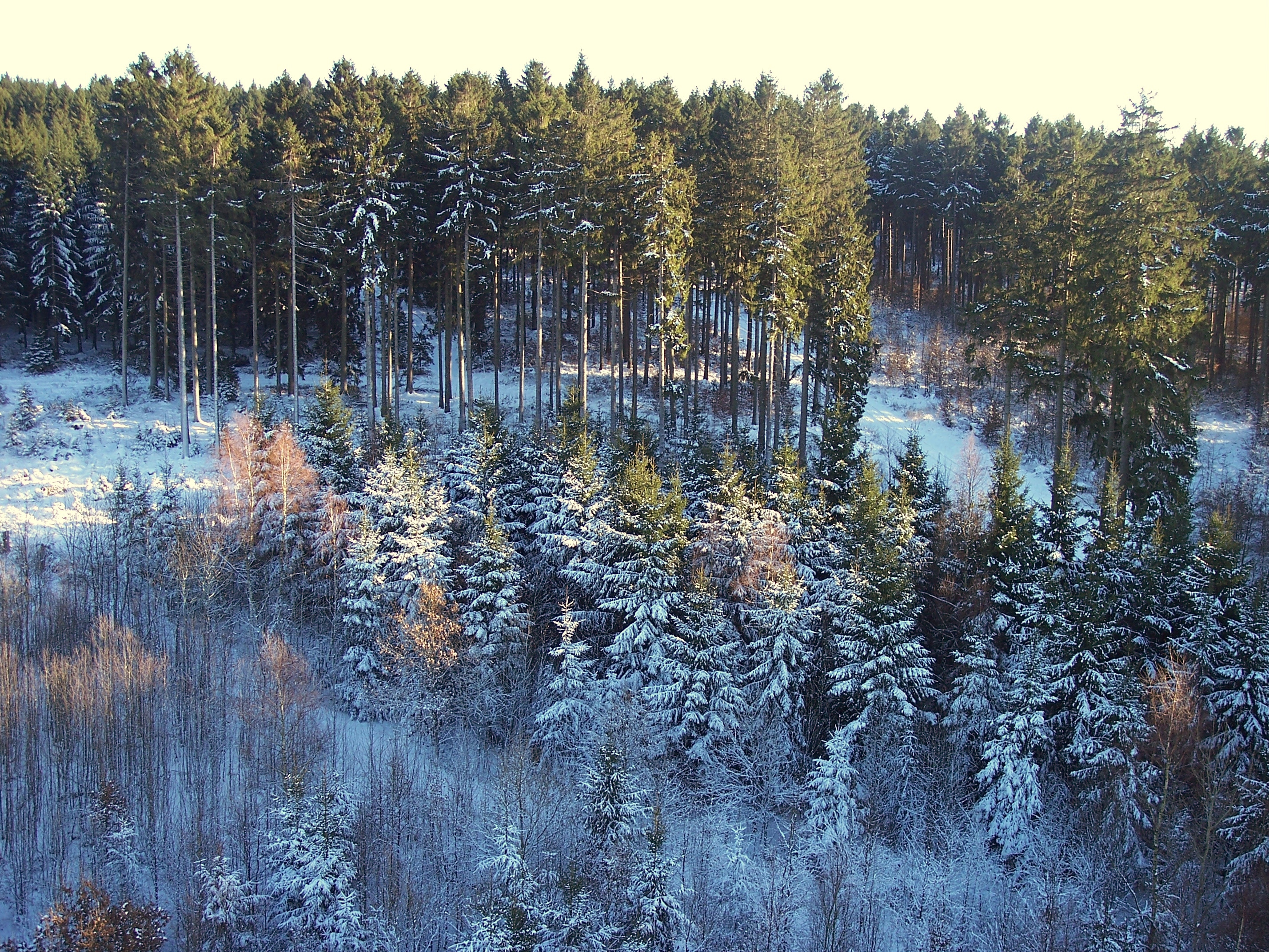 Top of the mountain Moosberg (Solling, Lower Saxony, Germany).